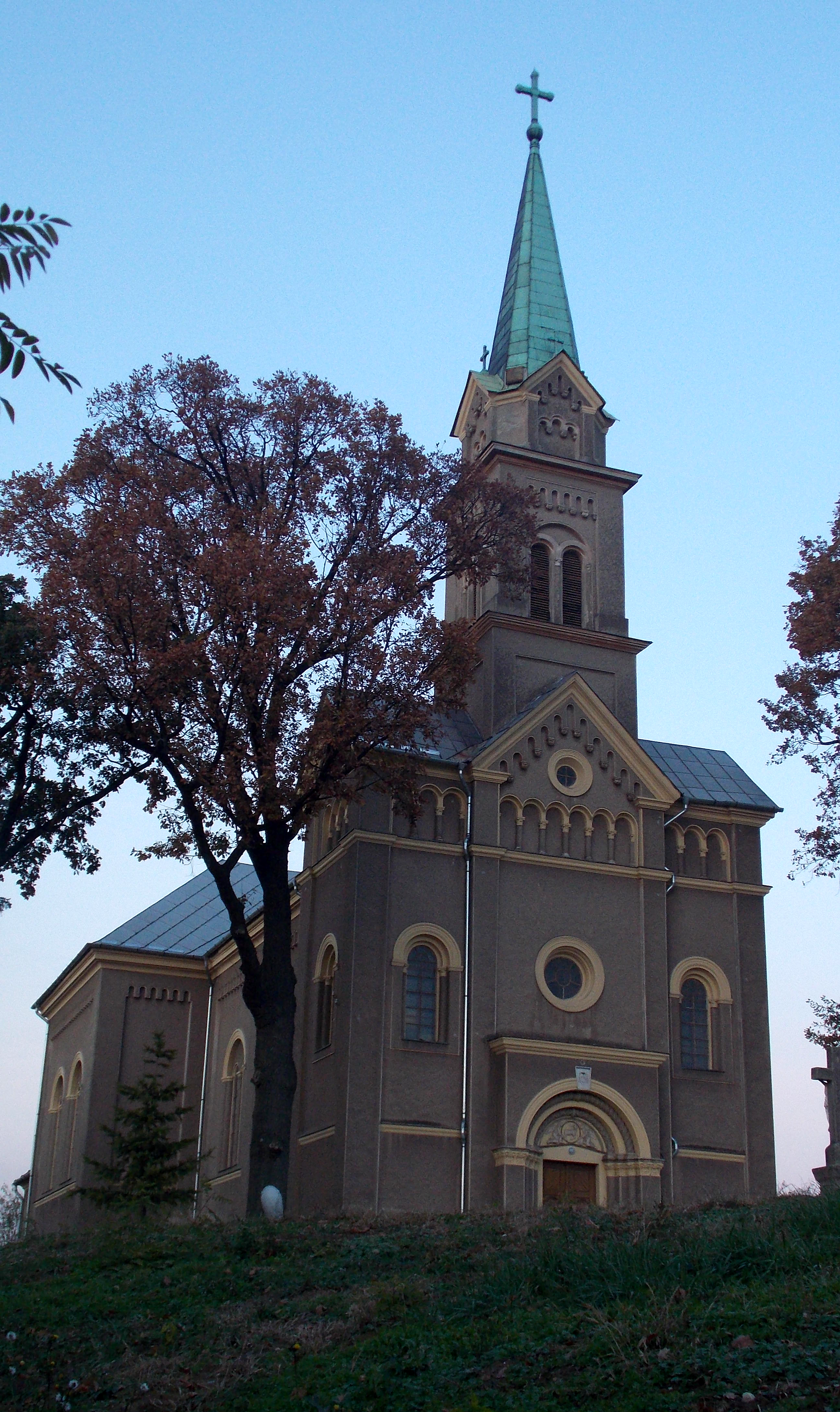 Episcopia Bihor Reformed Church - Oradea